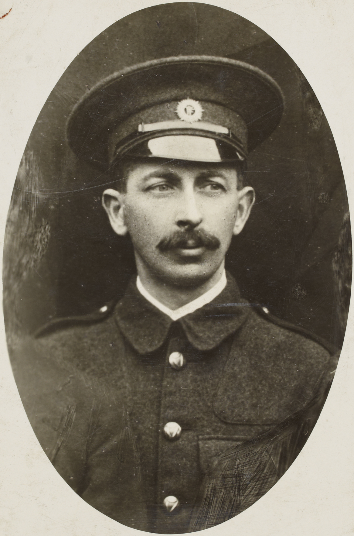 We have an interesting photo from the Irish Political Figures Photographic Collection, I selected the photo just because I had never heard of Joseph McGuiness. I have resisted the urge to research anything about him as I like to see the history unfold as I read your comments during the day. I am of course presuming there is a story to be told about Mr McGuiness? While some of today's class were distracted by extra-credit extra-curriculars ( :) ), we did get confirmation that this is indeed Joseph McGuinness (1875-1922). A member of the Irish Volunteers and participant in the Easter Rising, he would later become a TD in the first Dáil. A pro-treaty ally of Collins, he died in 1922 - and we were reminded that we'd shared an image of his funeral before. This image dates to his time in the Volunteers. And, based on the "photoshopping" of shoulders in the foreground, was clearly "extracted" from a group photo. Quite probably tthis 1915 group shot of the O'Donovan Rossa funeral committee... Photographers: Keogh Brothers Collection: Irish Political Figures Photographic Collection Date: Catalogue range c.1914-1922. Probably 1915 NLI Ref: NPA POLF119 You can also view this image, and many thousands of others, on the NLI’s catalogue at